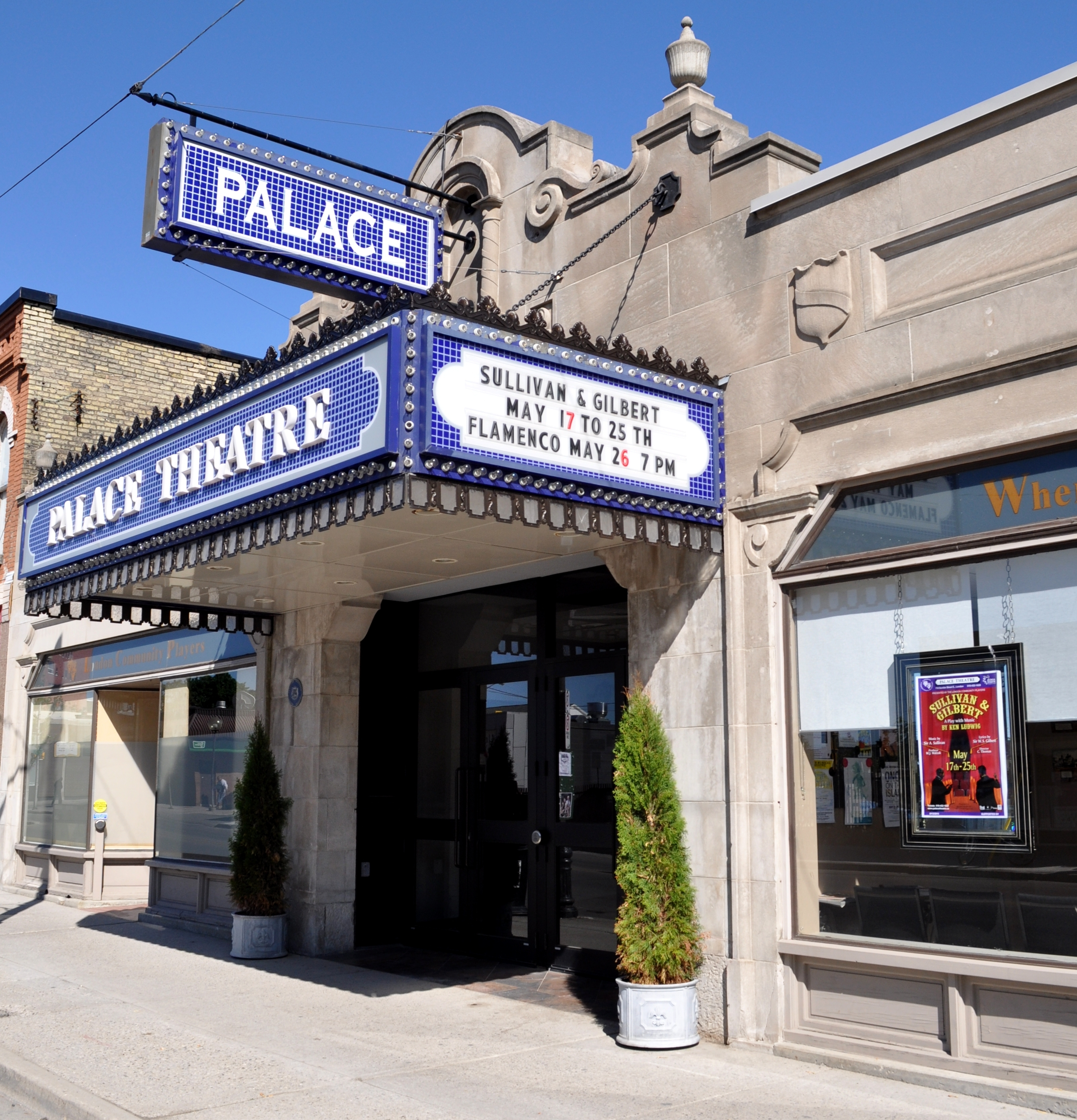 710 Dundas Palace Theatre, London, Ontario